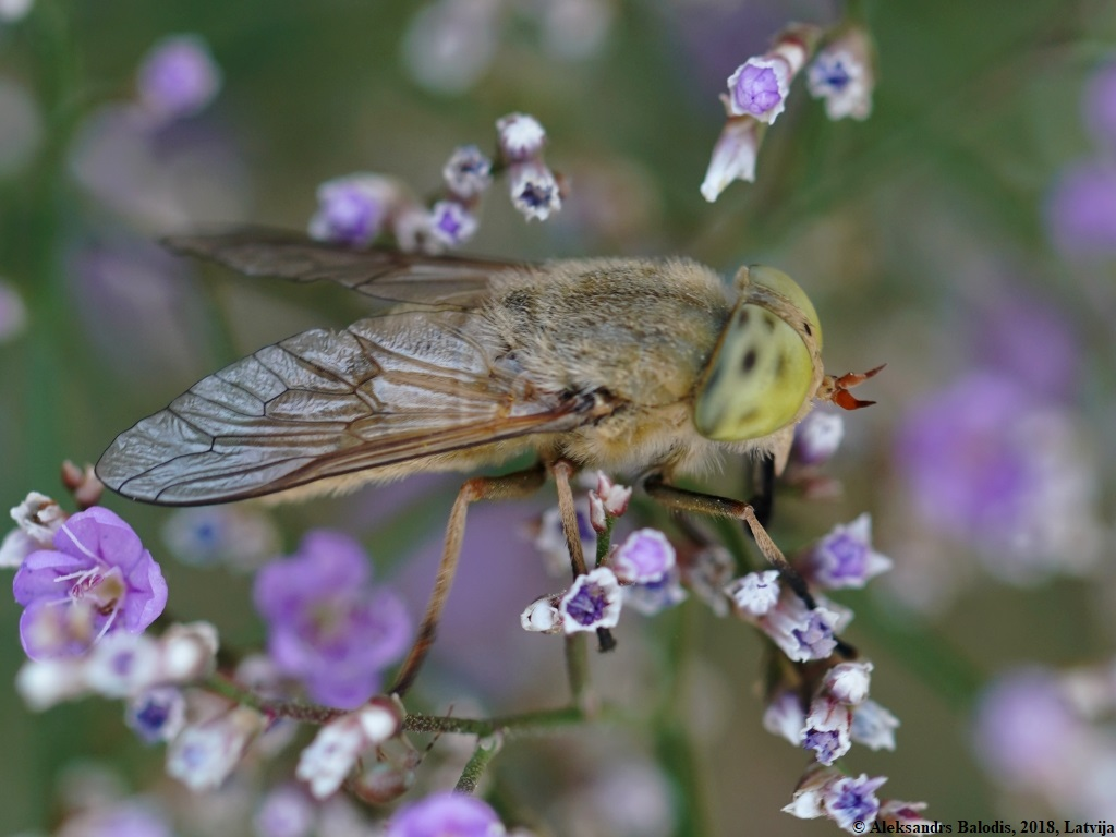 Atylotus rusticus